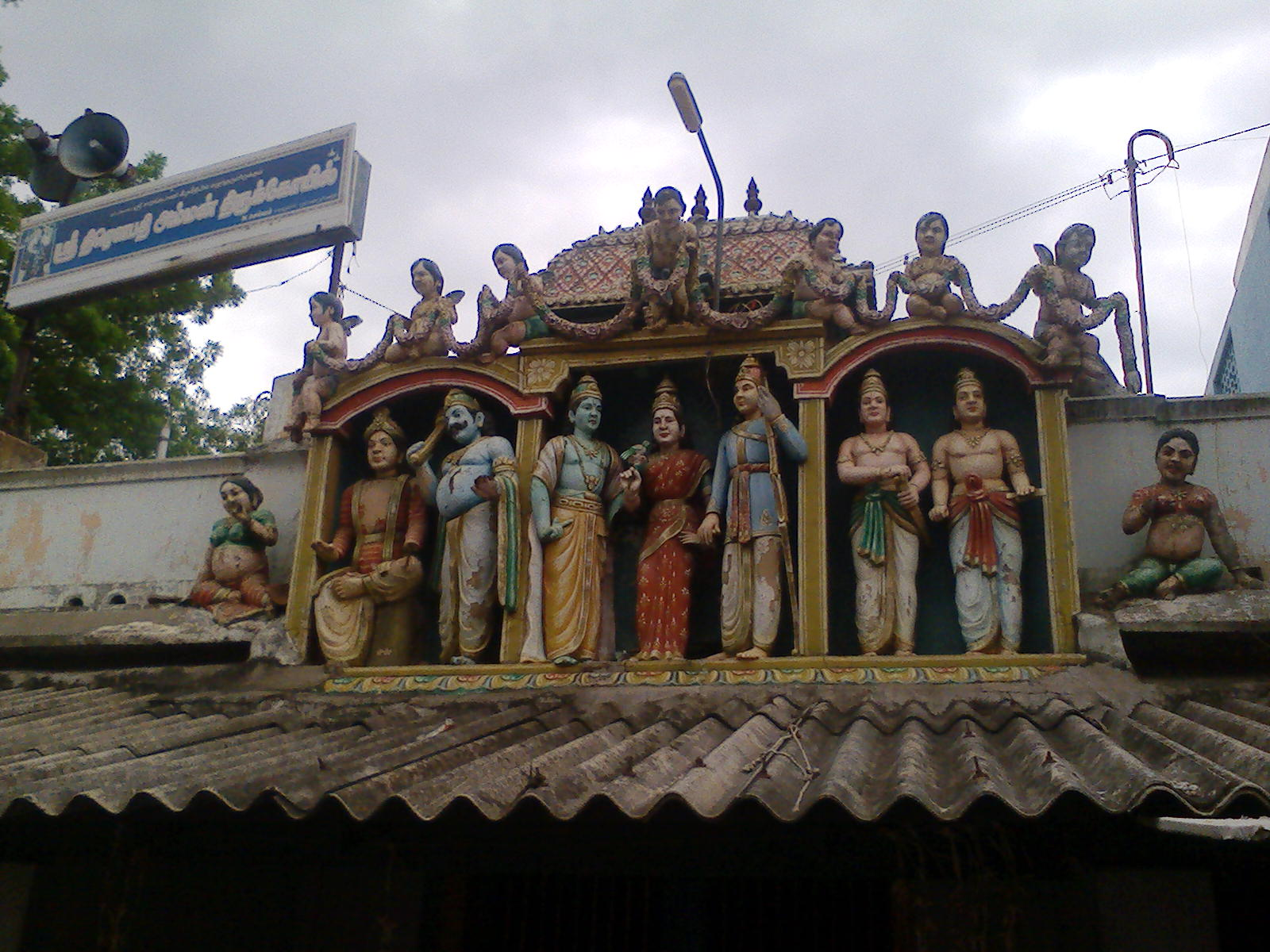 Kumbakonam Sarangapani East Street Draupathyகும்பகோணம் சாரங்கபாணி கோயில் கீழவீதி திரௌபதியம்மன்கோயில்